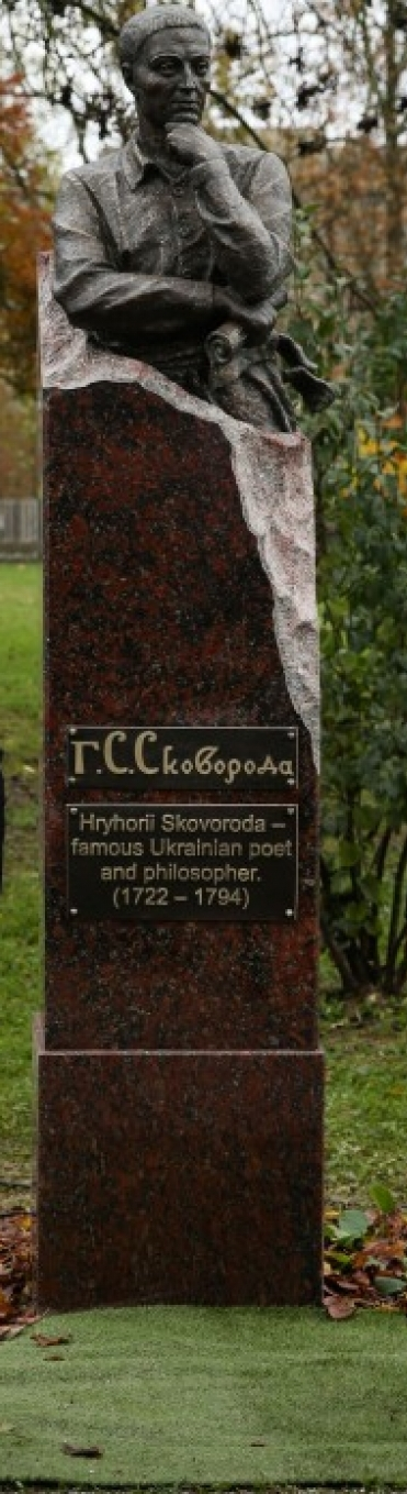 Hryhoriy Skovoroda monument in Ljublina